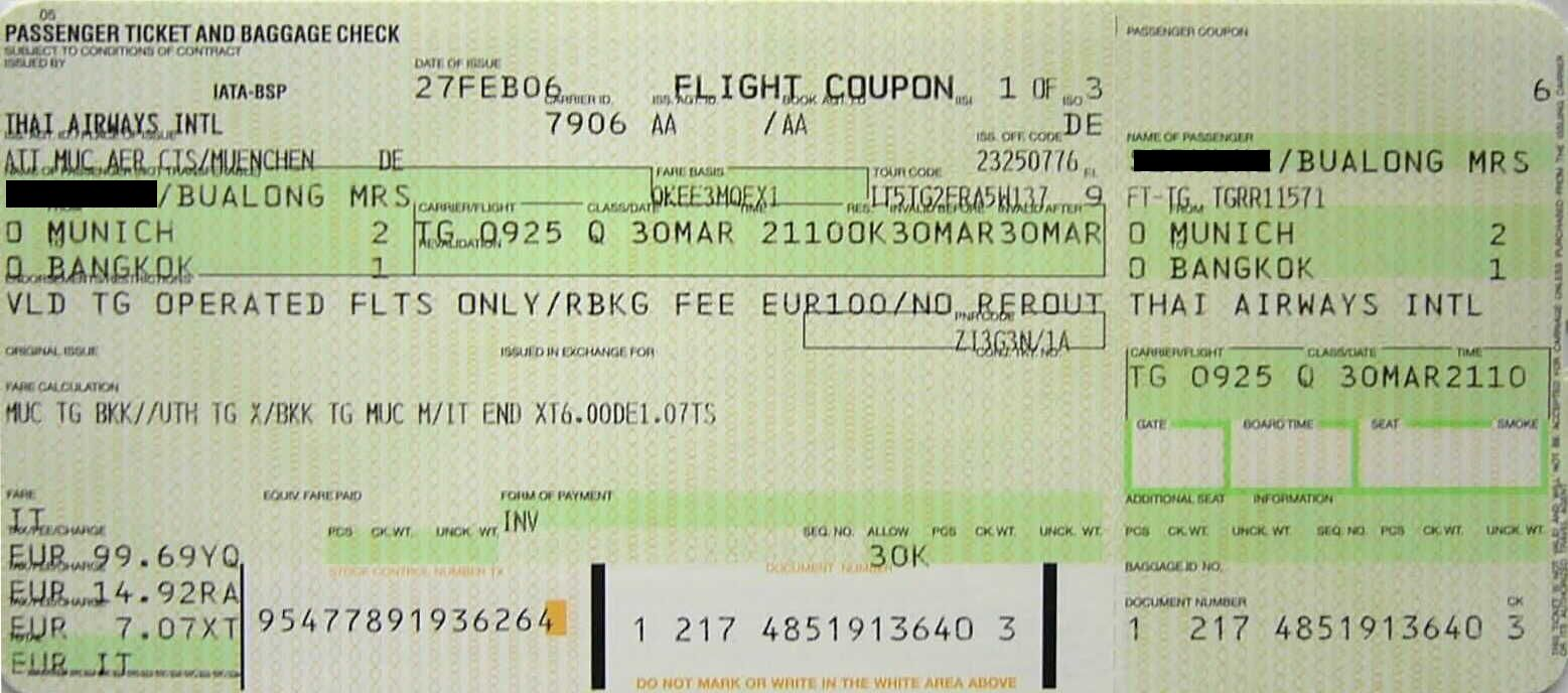 A flight coupon issued by Thai Airways International